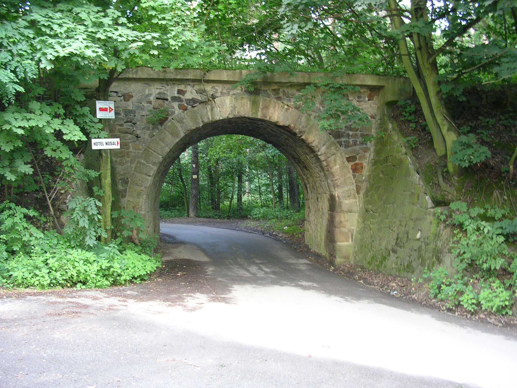 Michle, Prague, the Czech Republic.